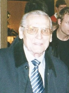 Gyula Grosics in 2005.